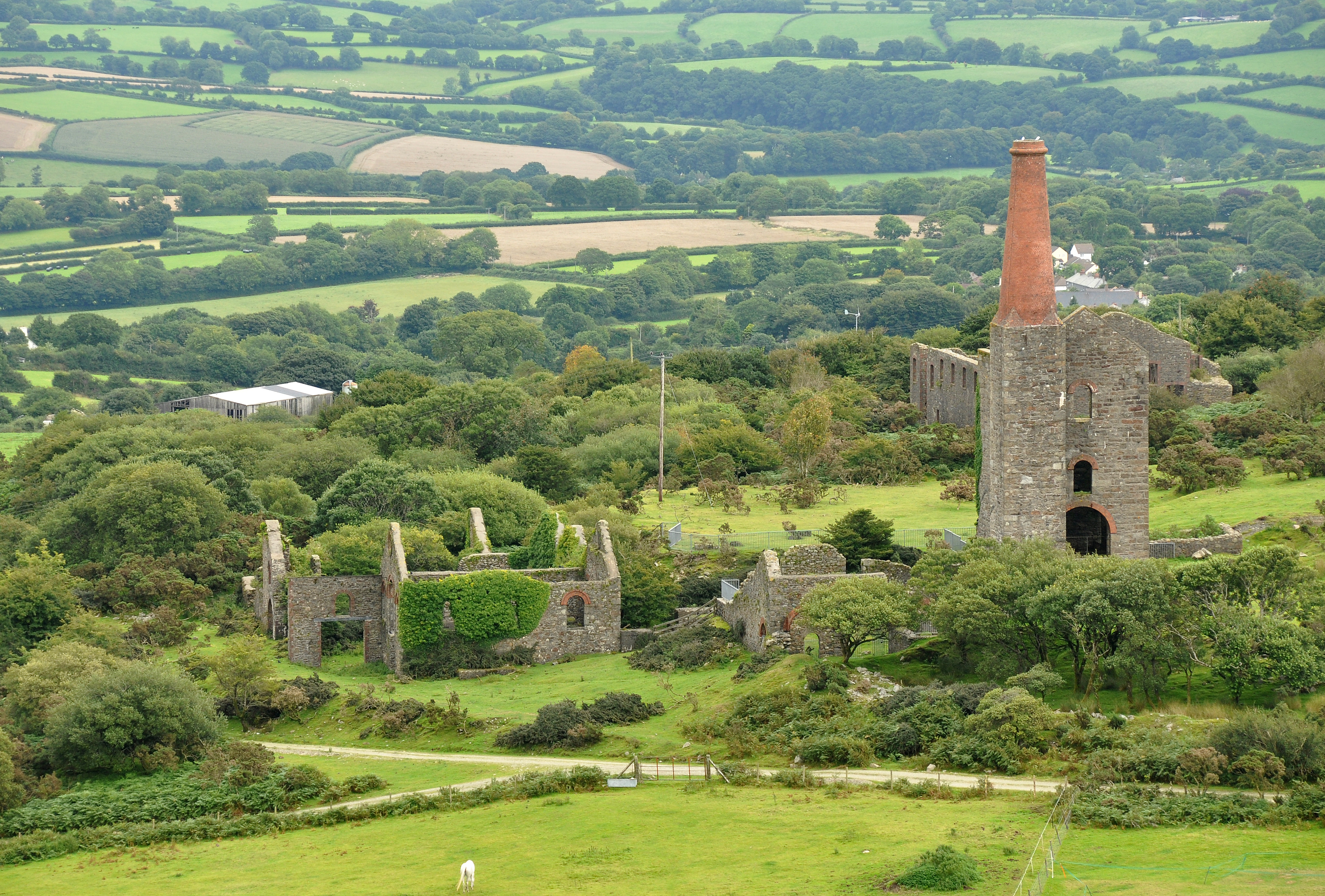 The remains of the Phoenix United tin mine, near Minions on Bodmin Moor, Cornwall.